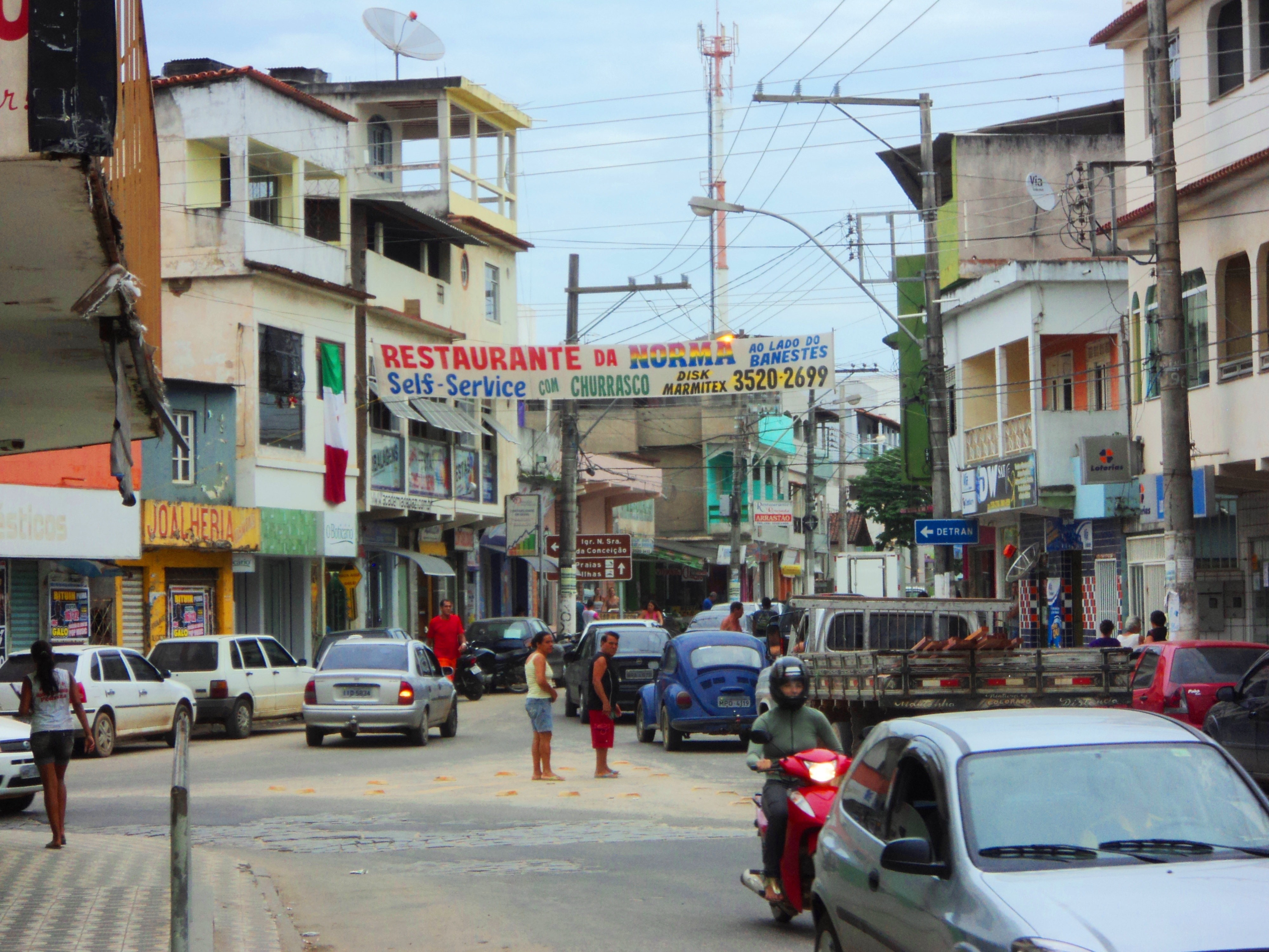 Trade in the Center of Piúma, Espírito Santo, Brazil.